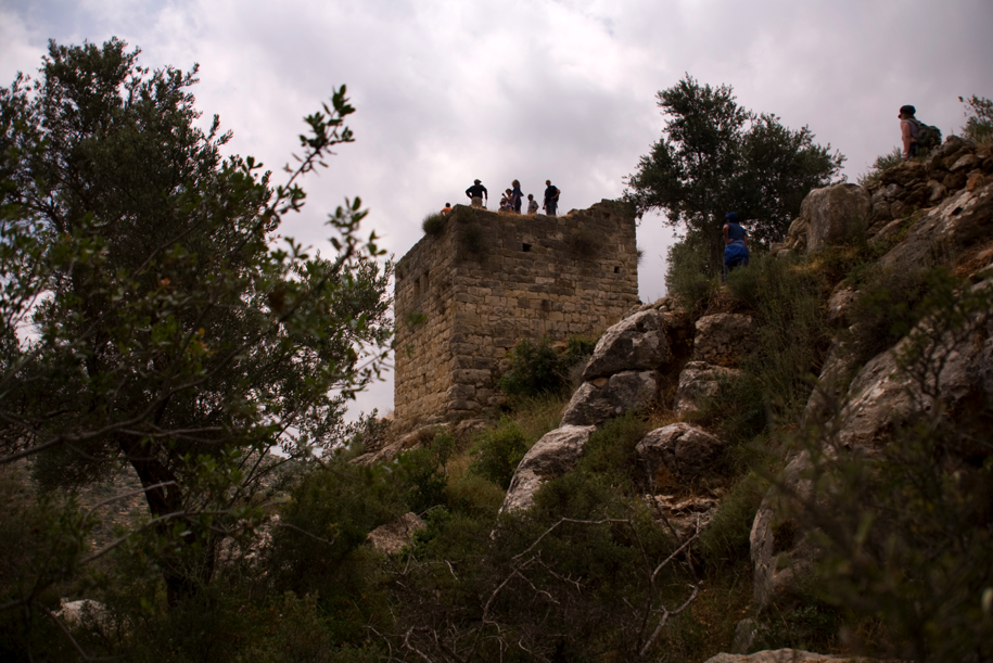 An qasr in the hills around Ramallah